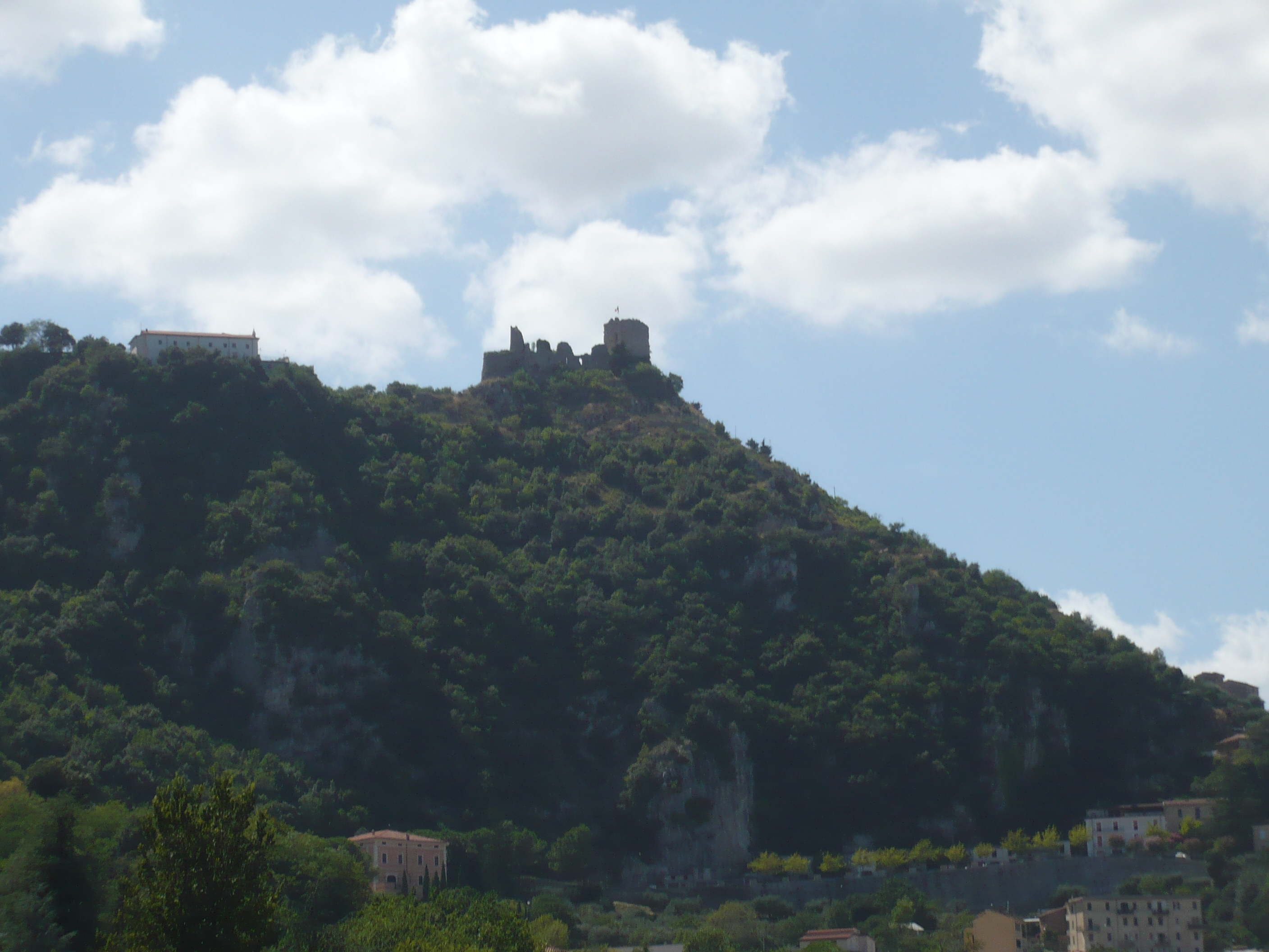 Roccaguglielma, castle of Esperia, province of Frosinone, Italy